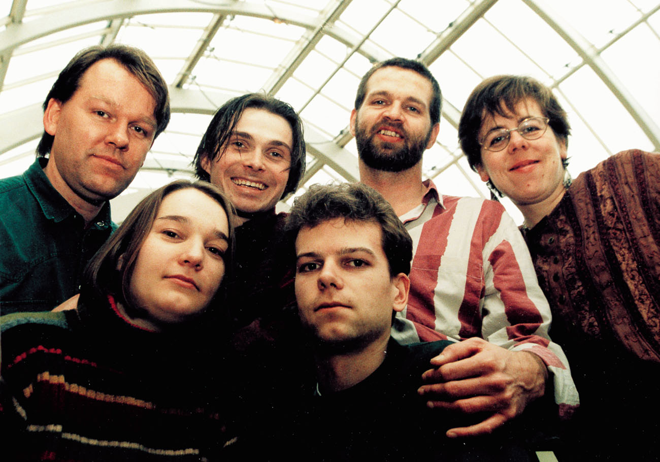 Yggdrasil. Picture from 1998. Free use for promoting the band.